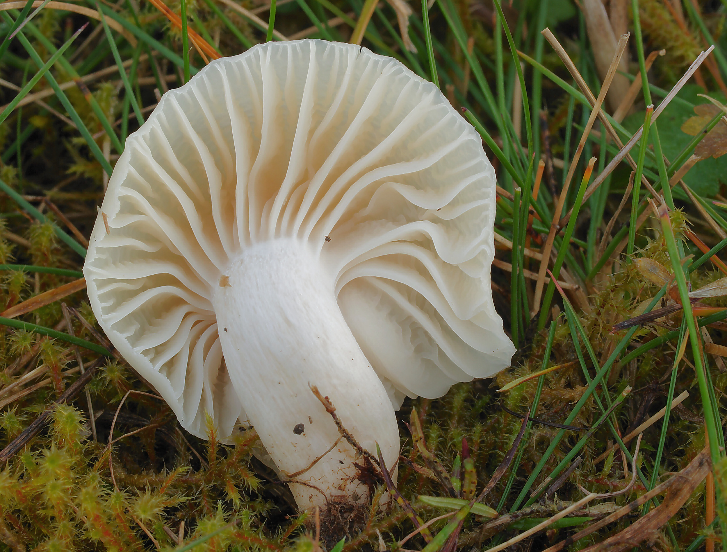 Snowy Waxcap (Cuphophyllus virgineus)